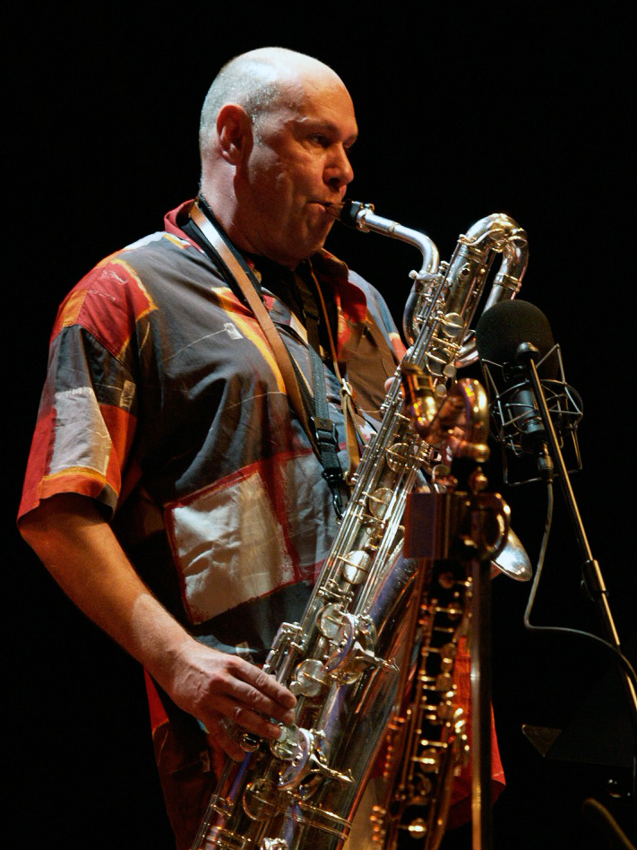 Eckard Koltermann at moers festival 2007 self made/own work, may 26, 2007 photo: nomo/michael hoefner